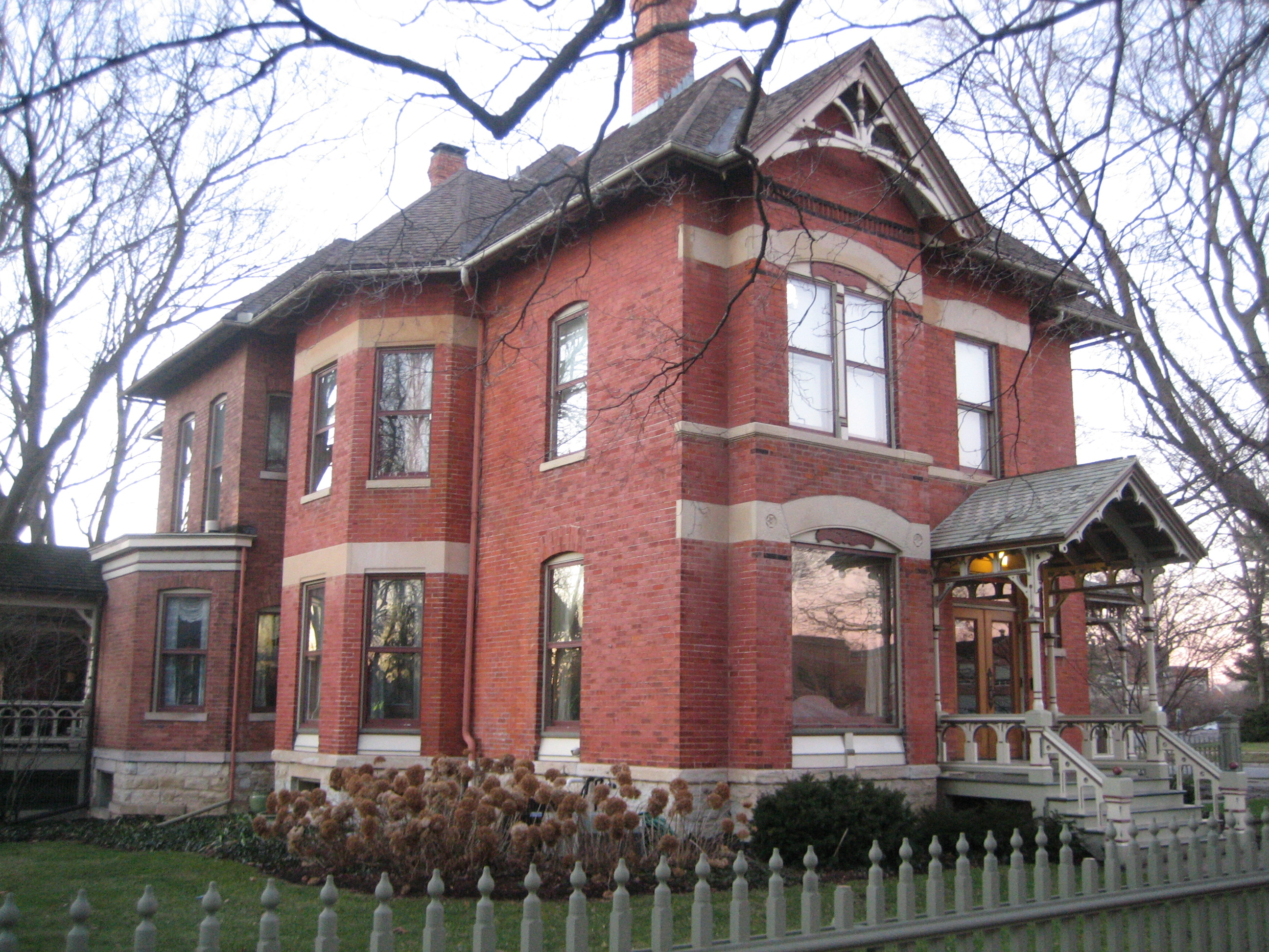 An old home on third street in DeKalb. One example of many older DeKalb homes with somewhat more ornate architecture than is seen in modern day "subdivision homes."